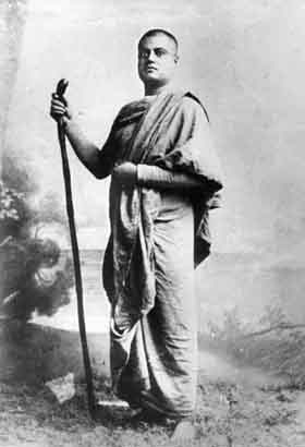 Swami Vivekananda in Jaipur 1891 (probably)